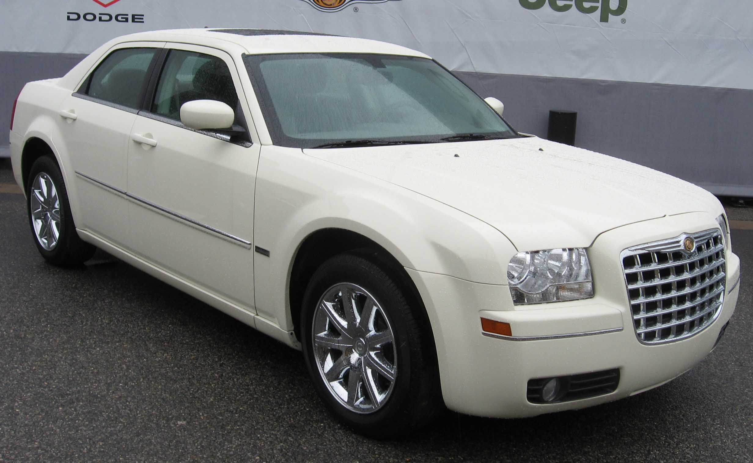 2008 Chrysler 300 photographed in New York City, USA.